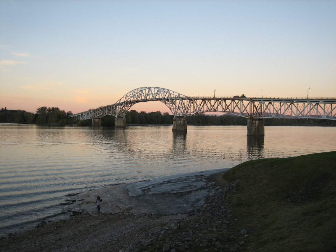 Bridge at Crown Point (NY) connecting the states of New York and Vermont.